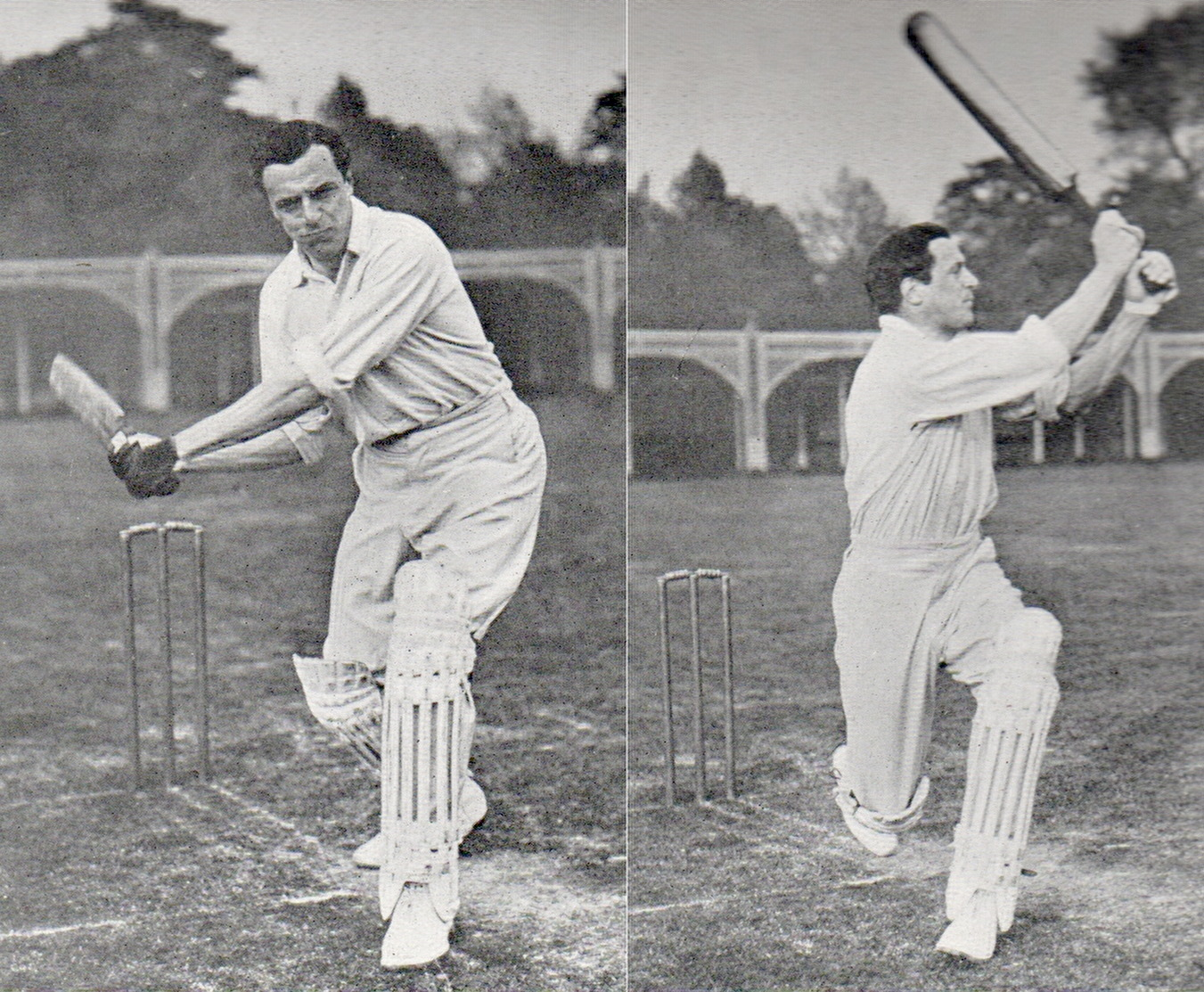 B J T Bosanquet playing a pull-drive, photographer by George Beldam (2 images cropped from same page)